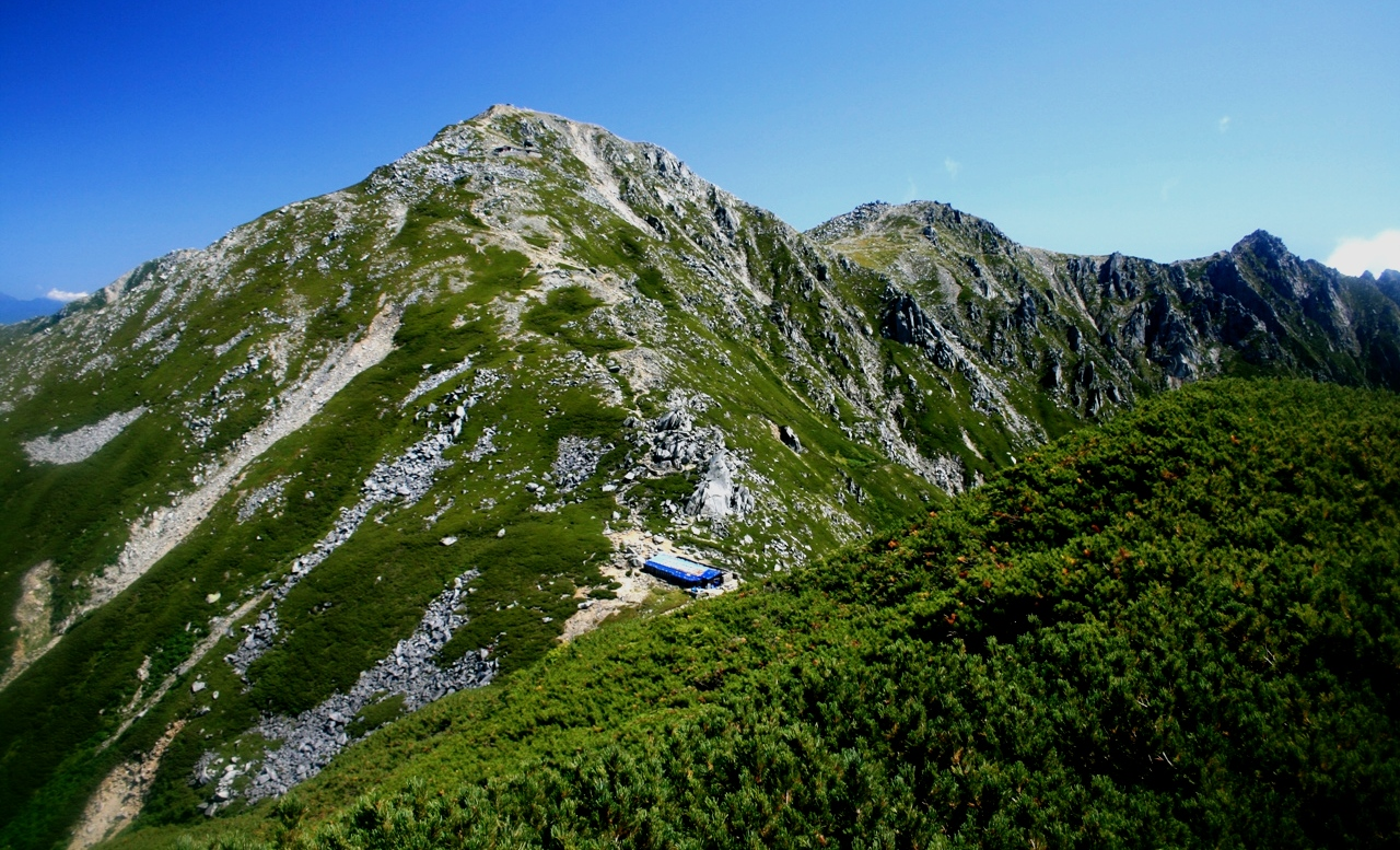 Mount Kisokoma, Mount Naka and Mount Hoken seen from Mount Kisomae in Kiso Mountains, Nagano Prefecture, Japan.